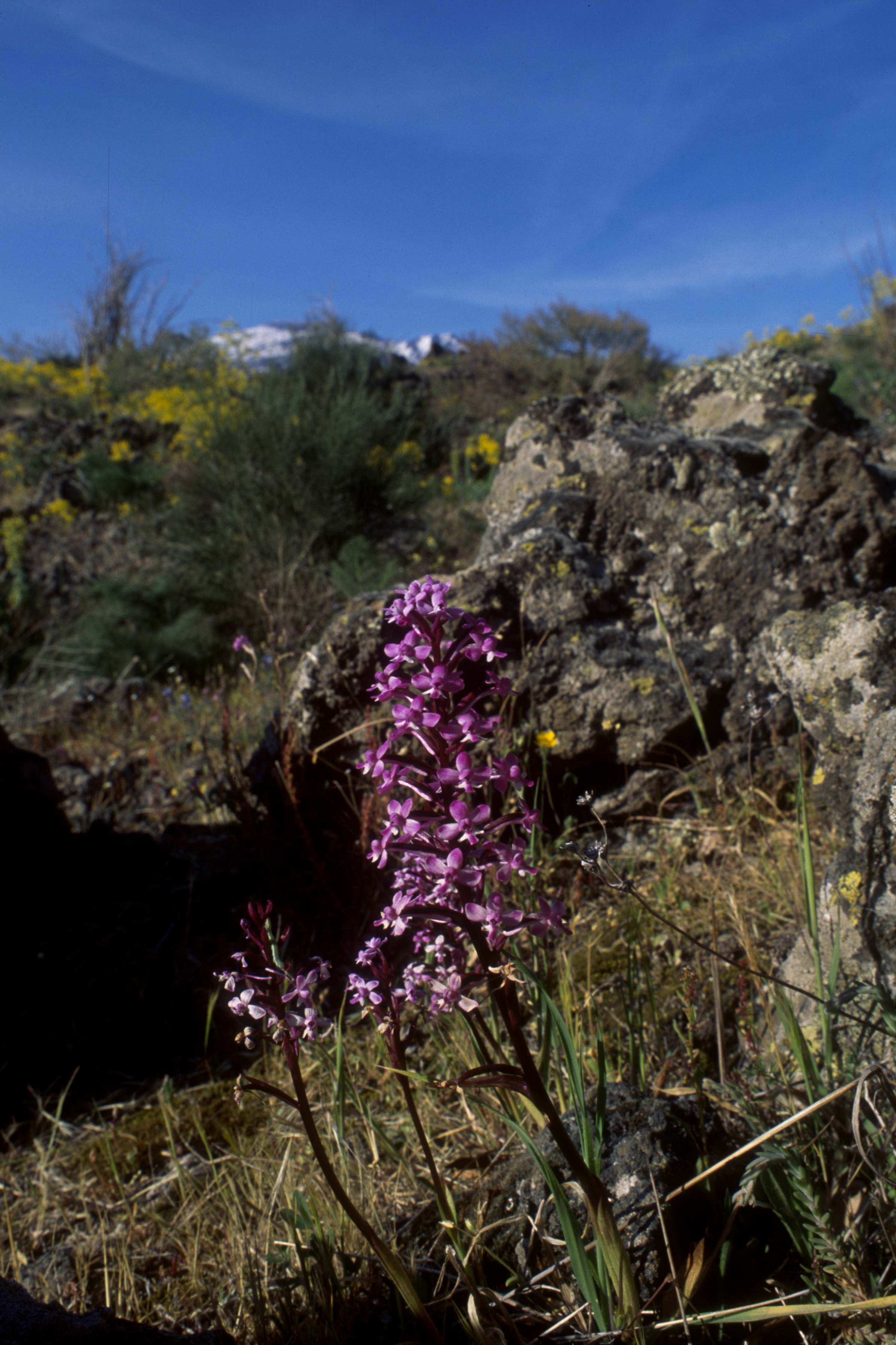 Orchis brancifortii Nicolosi, Etna south